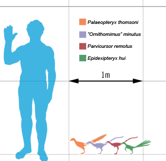 Chart comparing the relative sizes of several of the smallest non-avian dinosaurs. Modified after illustrations by Matt Martyniuk and User:Steveoc 86